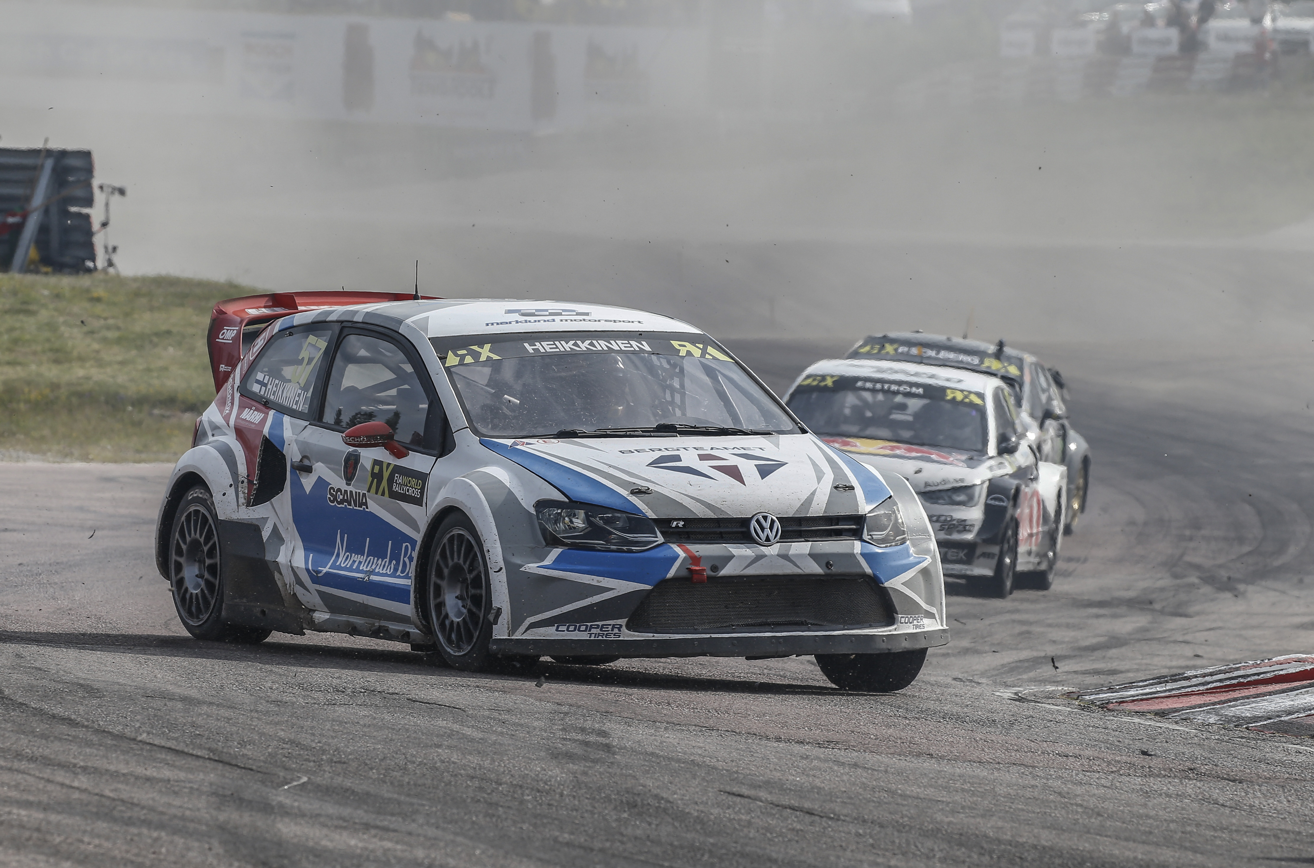 Finnish rallycross driver Toomas Heikkinen in his VW Polo Supercar at Höljes Motorstadion, Sweden. Round 6 of the 2015 FIA World Rallycross Championship.